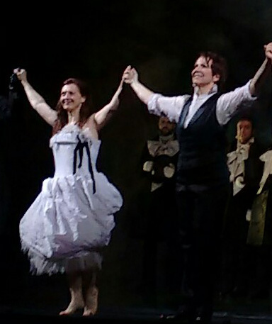 Curtain call for a performance of Bellini's I Capuleti e i Montecchi at the Gran Teatre del Liceu, Barcelona in May 2016. Joyce DiDonato performed the role of Romeo, and Patrizia Ciofi was Juliet.